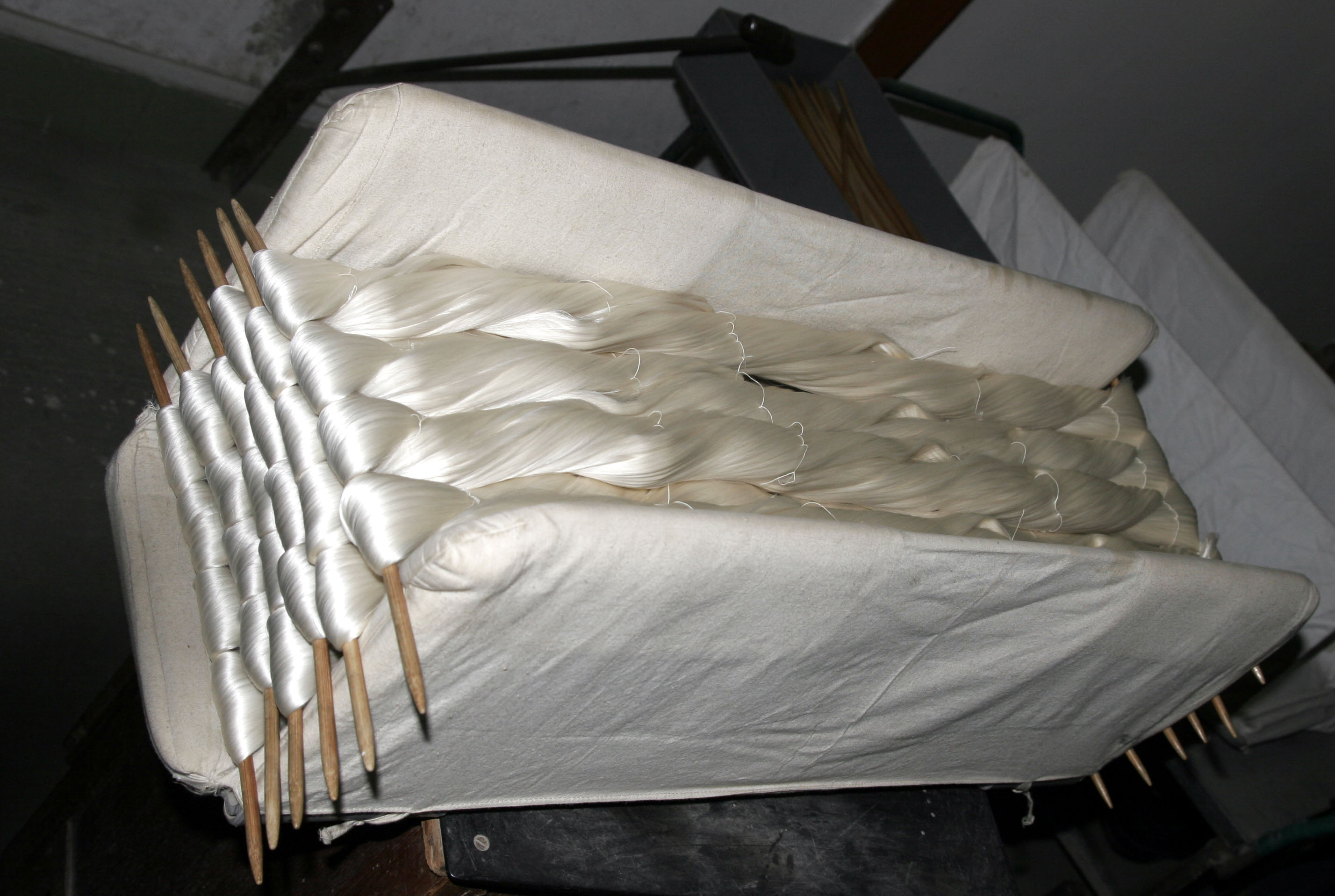 Raw silk in the Suzhou No.1 Silk Mill in Suzhou (Jiangsu), China